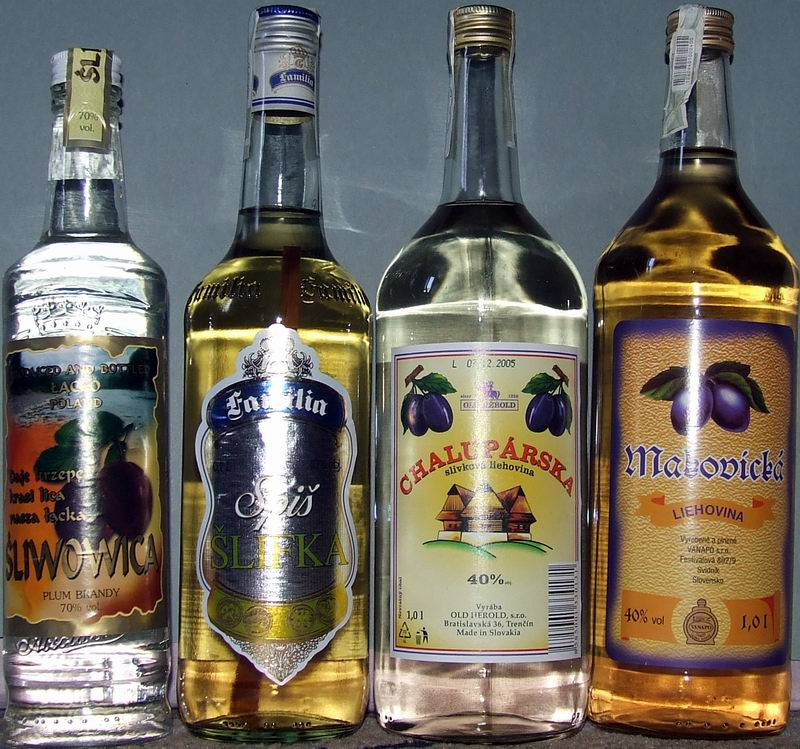 Bottle of Slivovitz